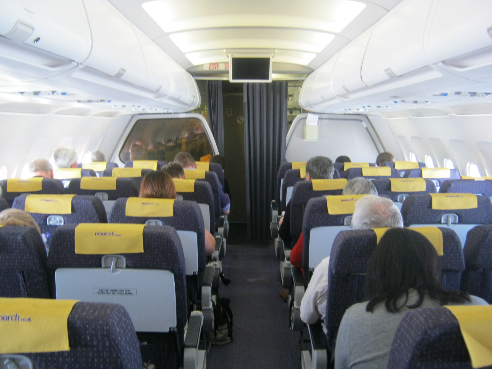 Inside G-MPCD whilst returning to Manchester from Gibraltar